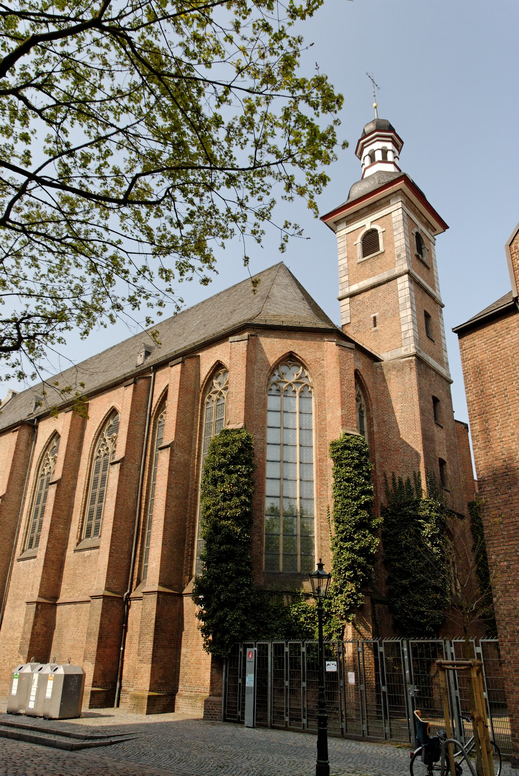 Kreuzherren Church in Düsseldorf-Altstadt, Germany